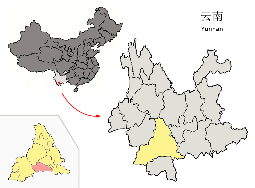 Location of Simao District (pink) and Pu'er Prefecture (yellow) within Yunnan province of China Map drawn in september 2007 using various sources, mainly : Yunnan province administrative regions GIS data: 1:1M, County level, 1990 Yunnan Counties map from